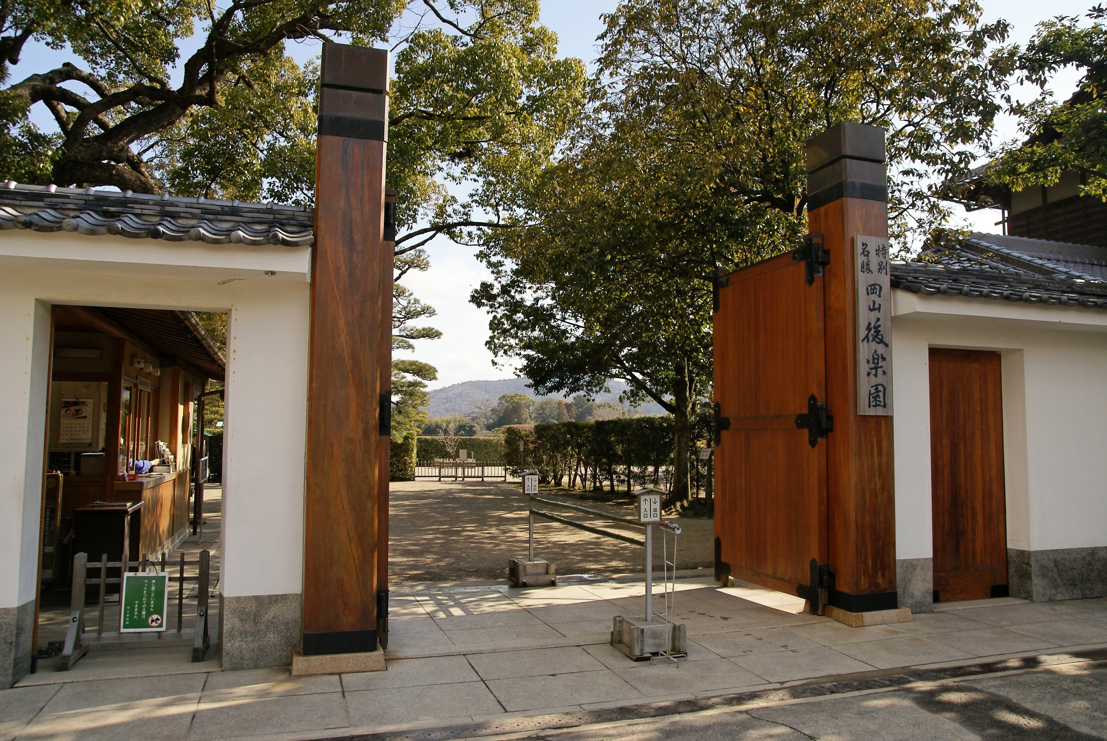 Korakuen in Okayama, Okayama prefecture, Japan